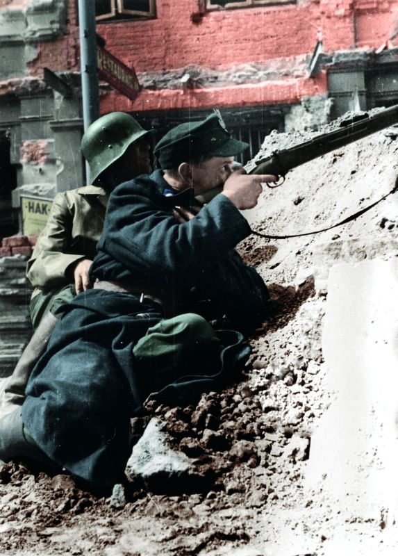 WarsawUprising: Insurgents from "Kiliński" Battalion shoot at "PAST" building from the barricade on Zielna Street. Hand colored black and white photo.